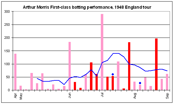 FC batting chart for Arthur Morris during the 1948 tour of England. Blue line is an average for five most recent innings, blue dots are not outs. Bars are runs scored. Pink for FC, red for Tests